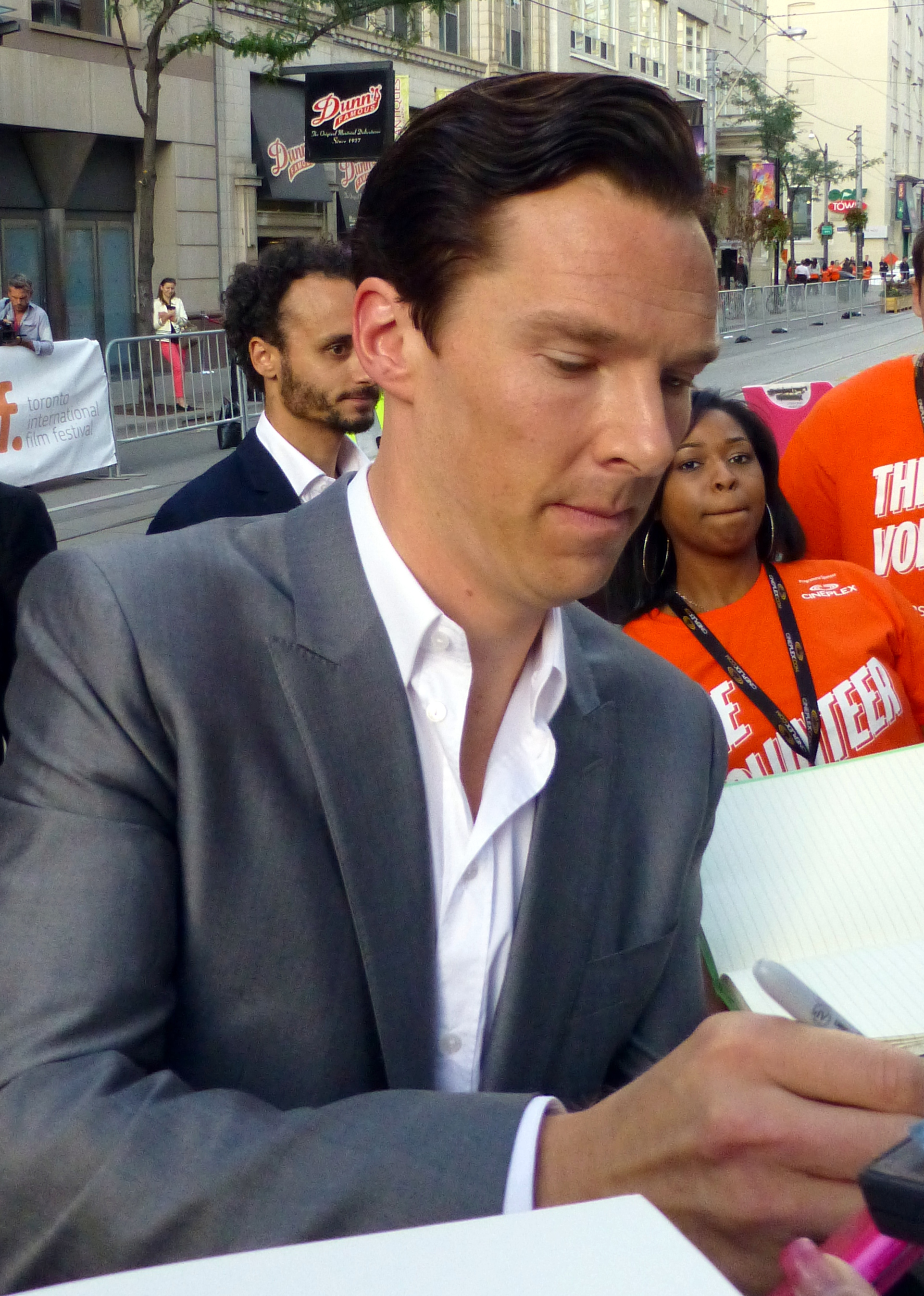 Benedict Cumberbatch at the premiere of 12 Years a Slave, 2013 Toronto Film Festival